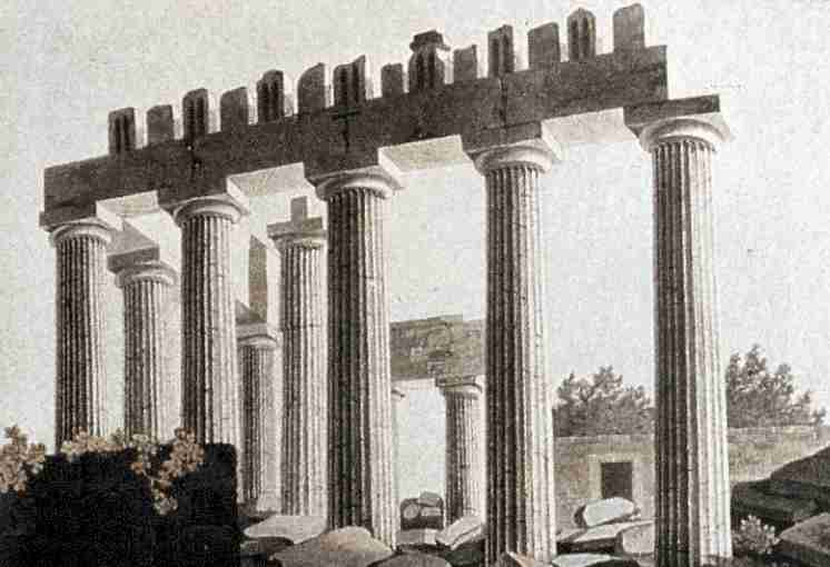 The Parthenon in Athens after the removal of the "Elgin Marbles"